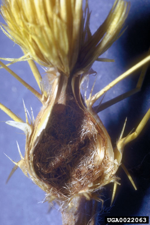 pupal chamber of weevil Eustenopus villosus